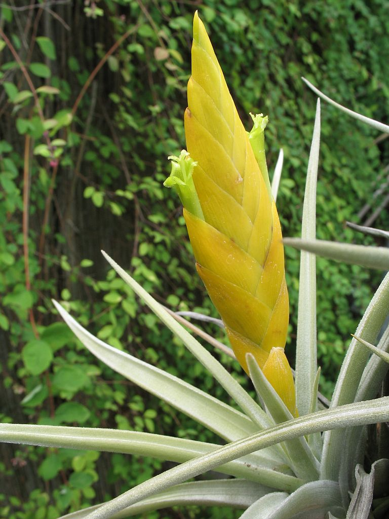 Tillandsia lotteae in cultivation at the Botanical Garden of Heidelberg, Germany.